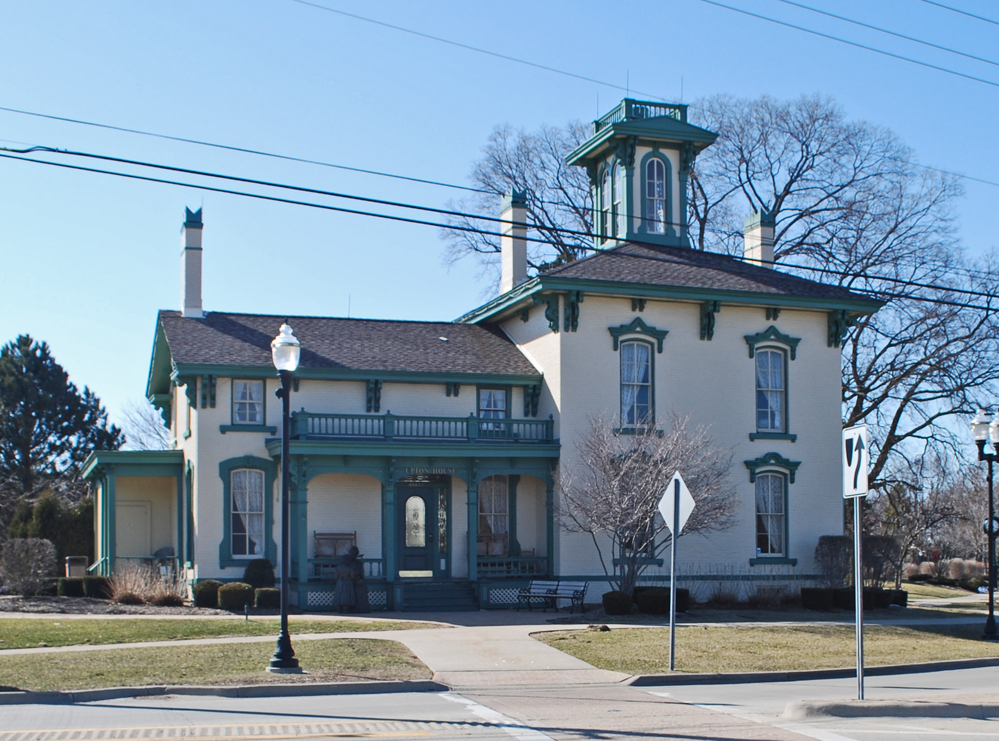 William Upton House (rear), Macomb County MI